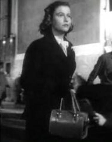 Cropped screenshot of Nancy Olson from the film Union Station (1950).